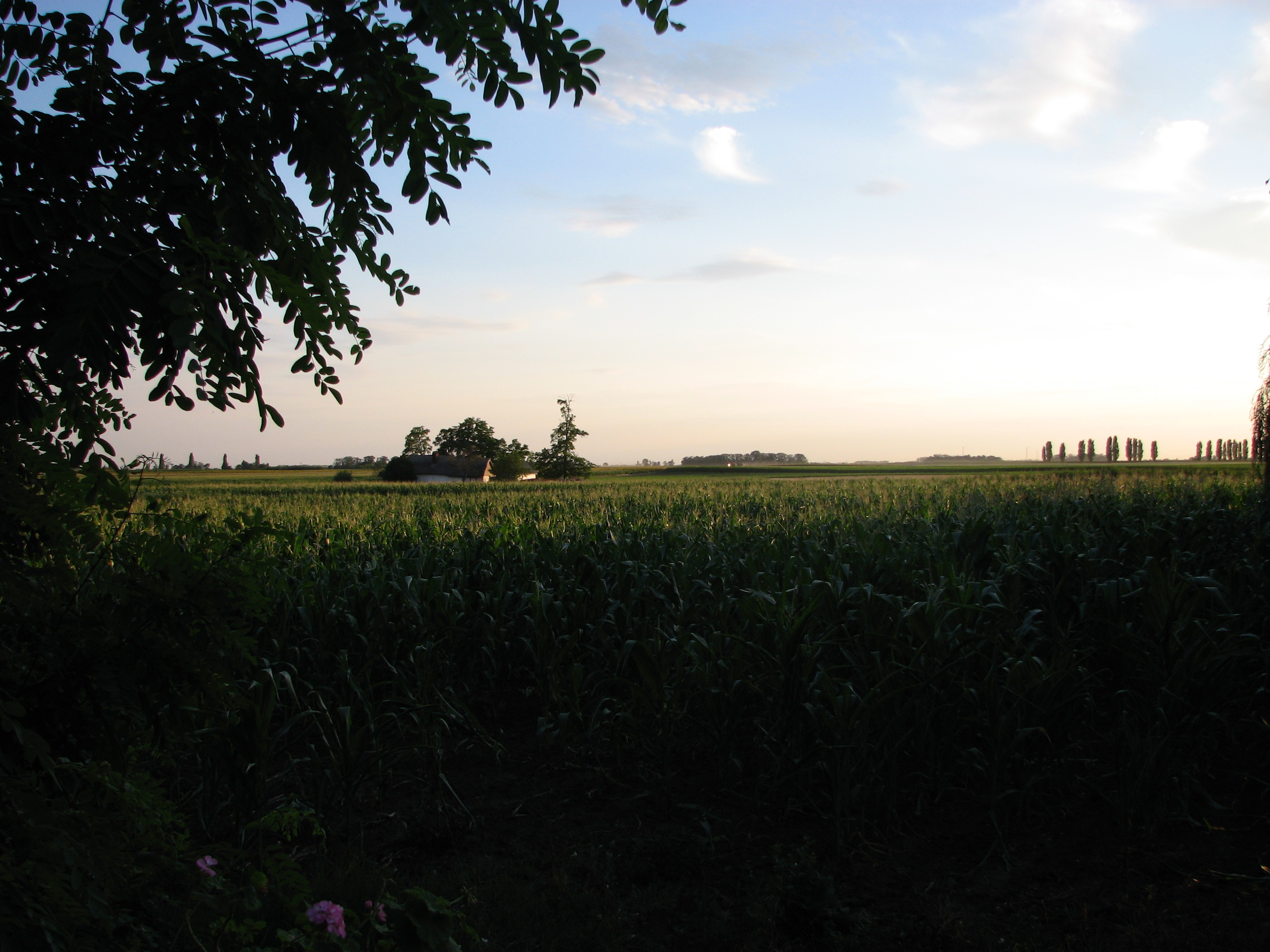 A landscape with a typical farm (in Hungarian this type of farm is called tanya) in a corn field in the Szállásföld Dél region of Hajdúdorog town, Hungary.